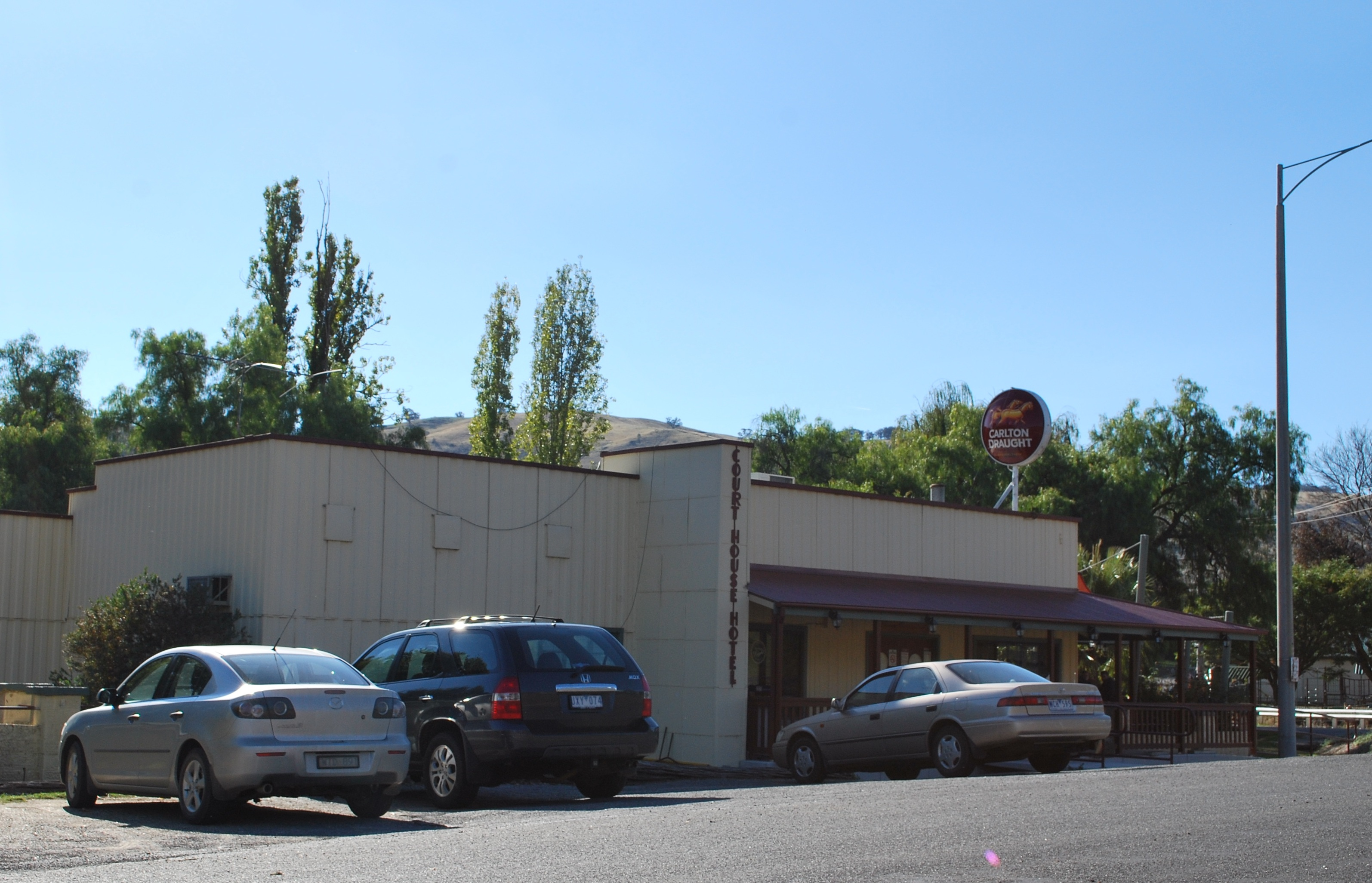 Court House Hotel at Bethanga, Victoria